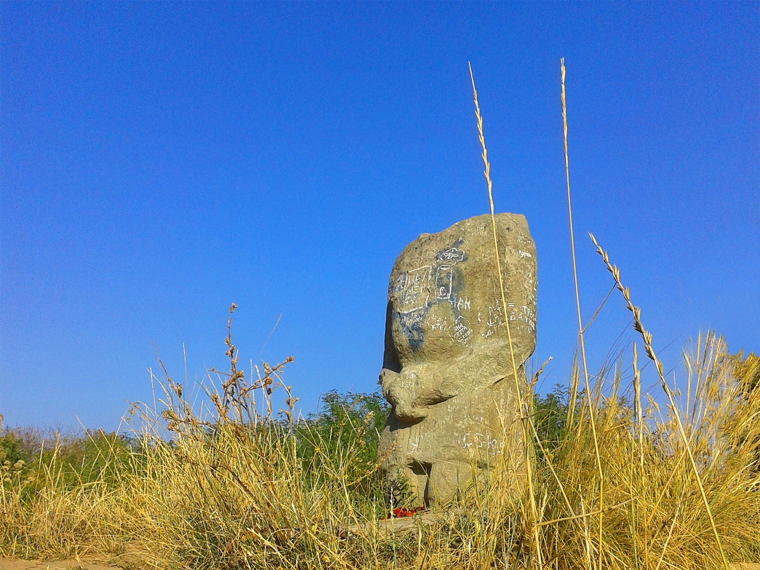 Polovets baba in Kyiv (Ukraine)